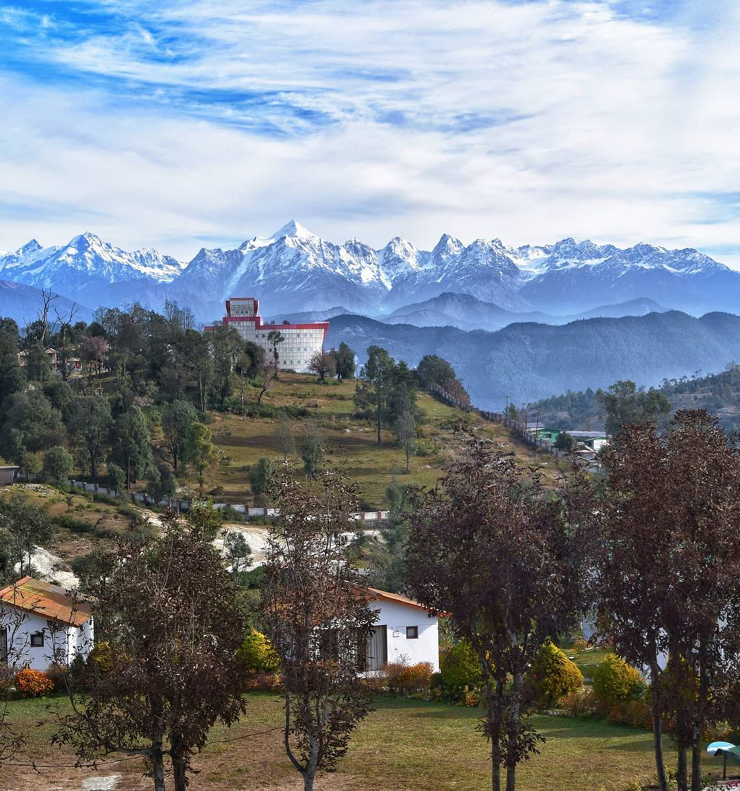 This file represents a beautiful view of the Himalayas from Chaukori.